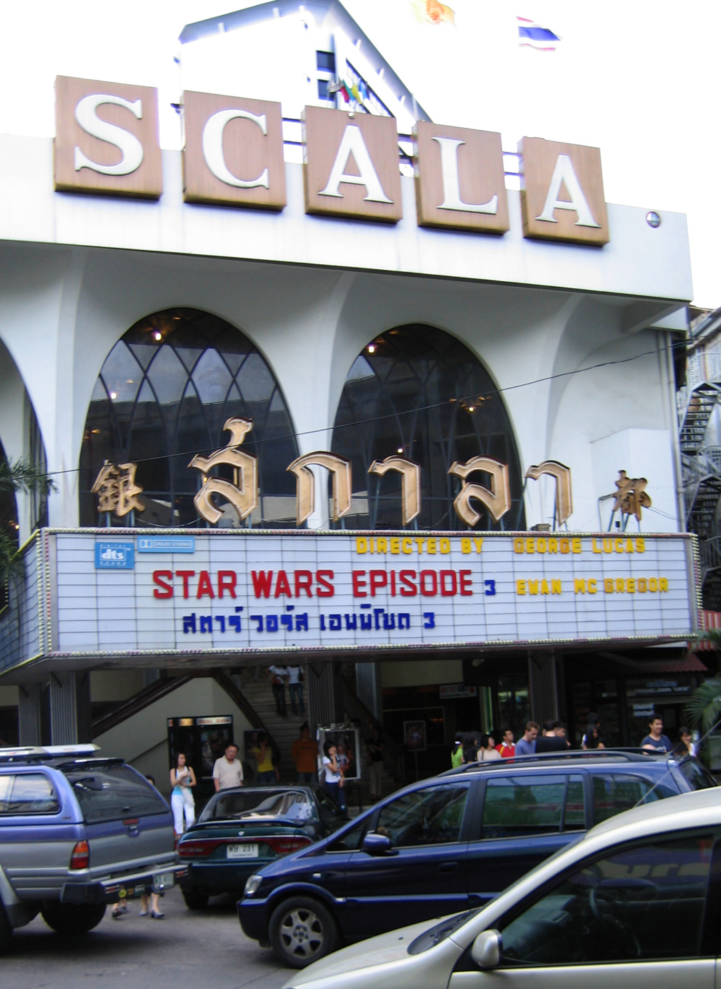 The Scala Theater in Siam Square, 2005.